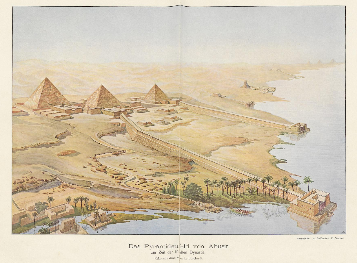 A painting by A. Bollacher and E. Decker depicting the pyramids of Neferirkare Kakai (left), Nyuserre Ini (middle) and Sahure (right). Further in the background the figures of sun temples can be made out. In the very far background, three other pyramids can be detected. Taken from Ludwig Borchardt's Das Grabdenkmal des Königs Ne-User-Re (1907).